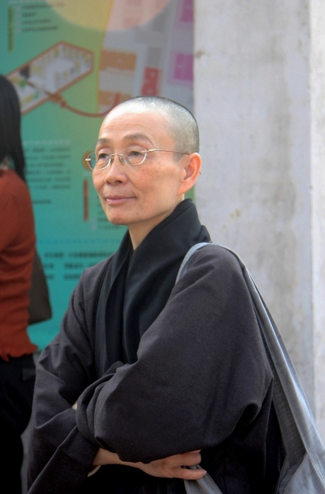 A well-known Buddhist nun from Taiwan.